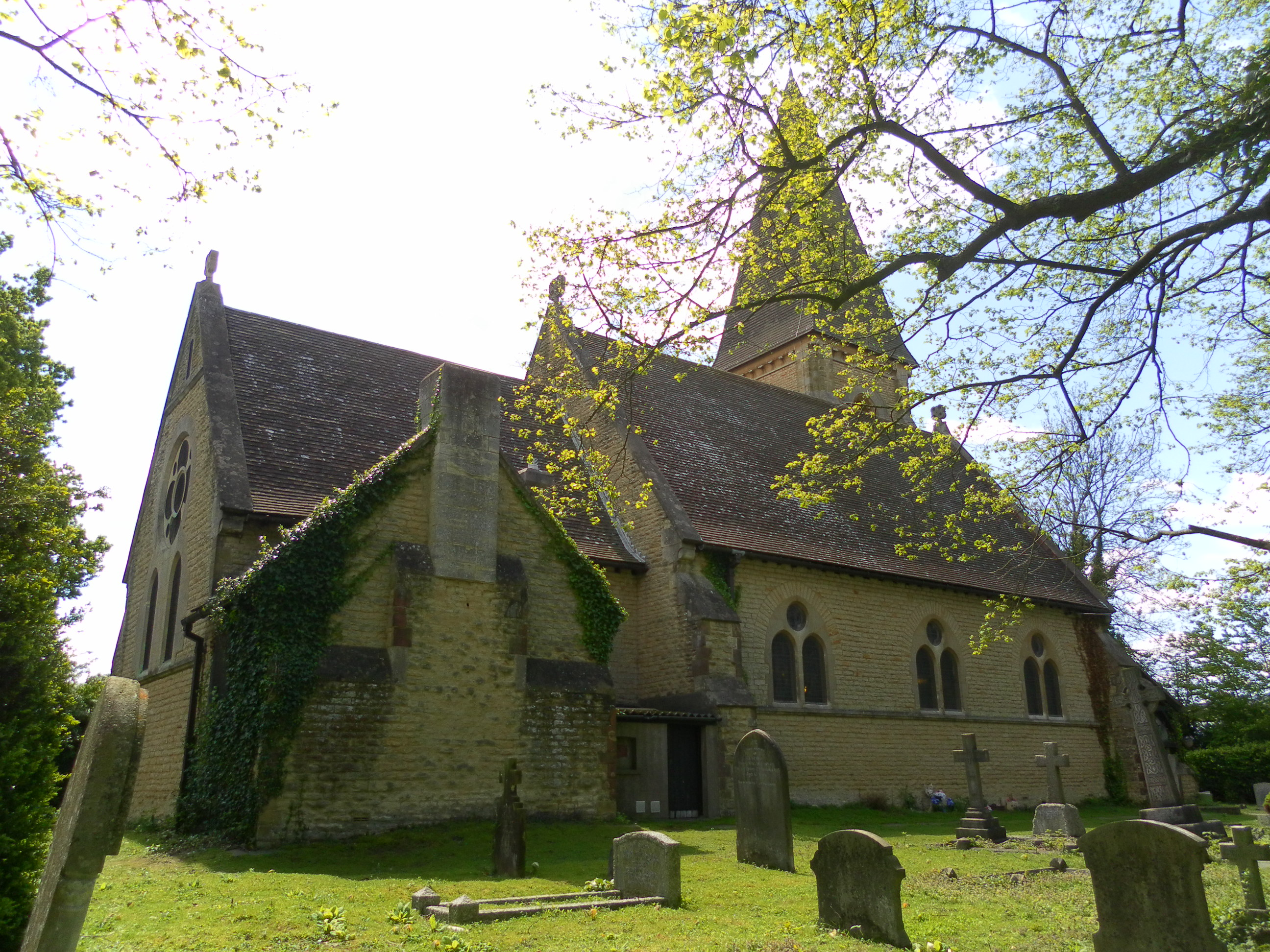 St Michael and All Angels Church, Lowfield Heath, Crawley, West Sussex, England. The former Anglican church in the former village of Lowfield Heath. Now a Seventh-Day Adventist Church. Listed at Grade II* by English Heritage (ref #363337)